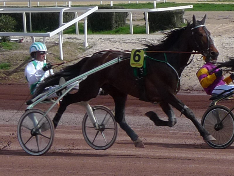 Meaulnes du Corta and Pierre Levesque - Cote d'Azur racecourse - Cagnes-sur-Mer - Critérium de Vitesse 2009